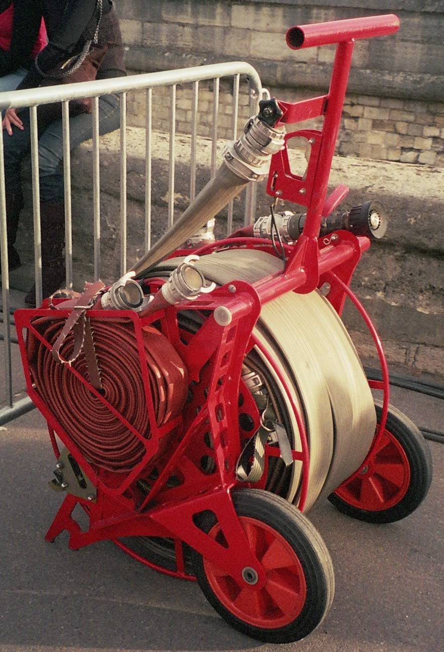 Nation/Defense days, Esplanade des Invalides, Paris, France, September 24-25, 2005